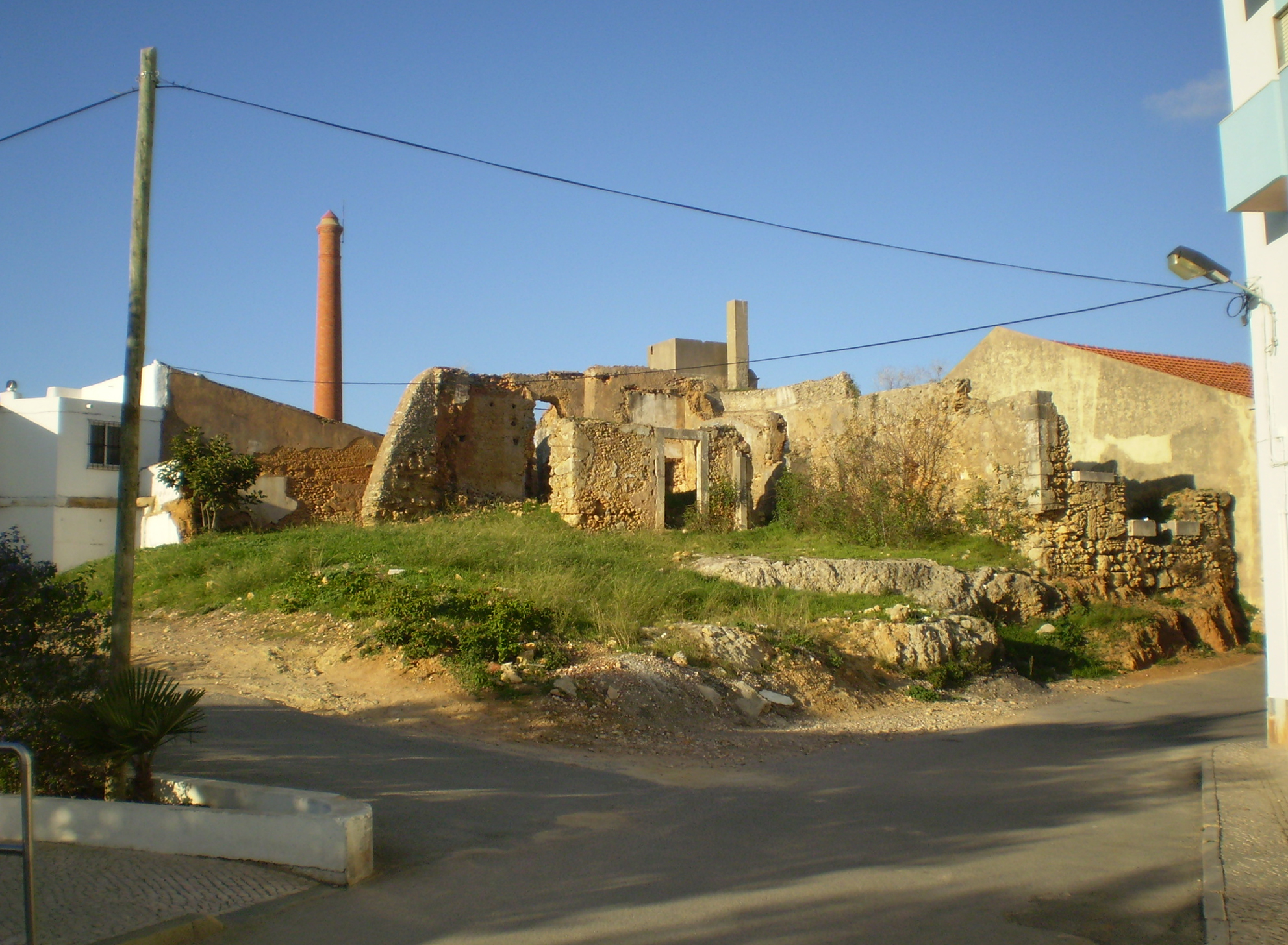 Remains of the Santo Amaro chapel, in the city of Lagos, in Portugal.